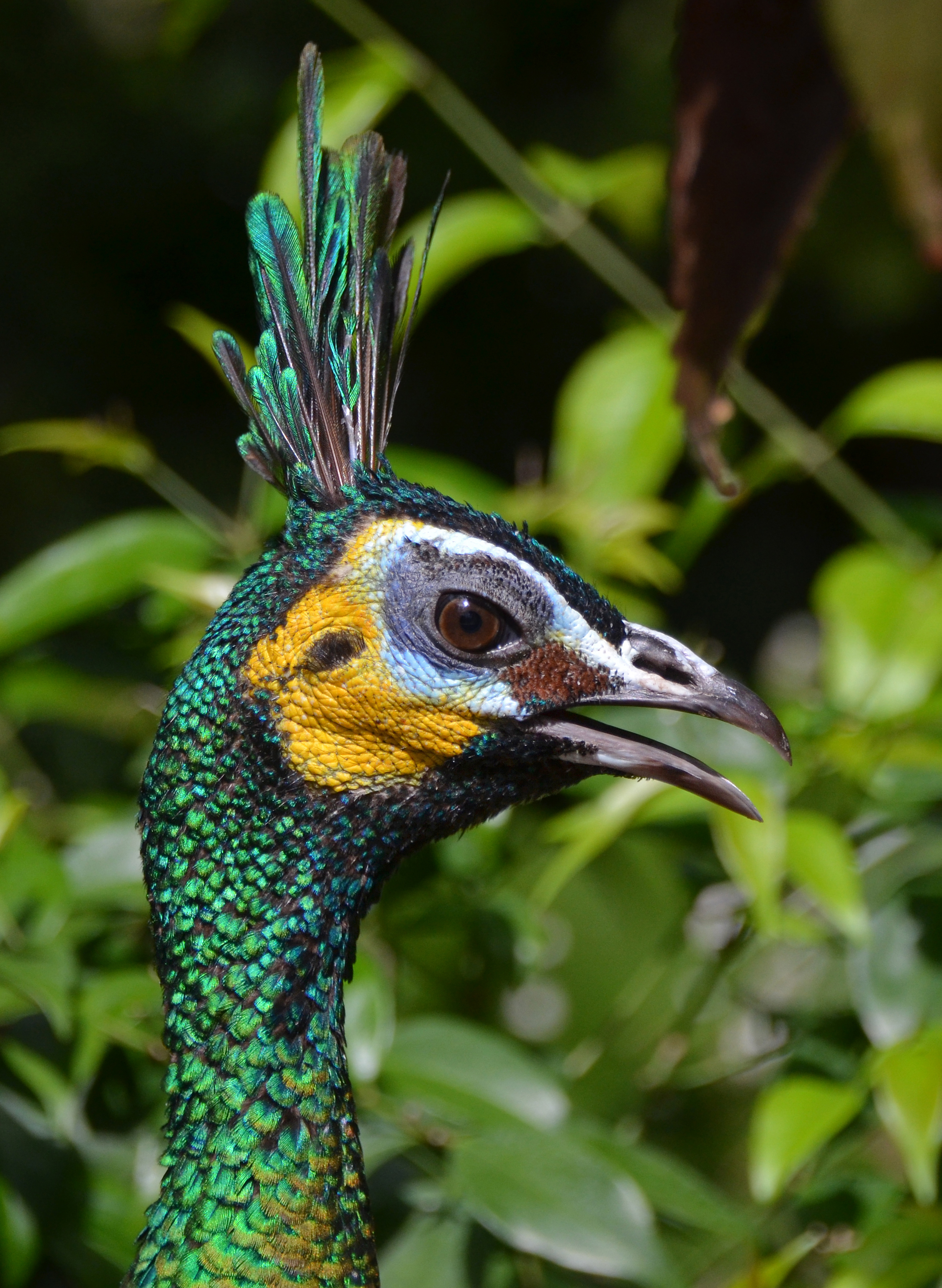 Green Peafowl (female) in Miami MetroZoo